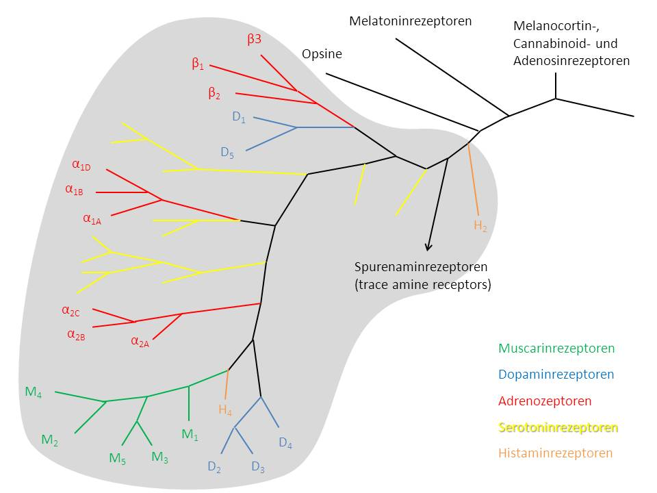 Family tree of G protein-coupled receptors, after Fredericksson et al., Mol. Pharmcol. 63, 1256-1272 (2003)